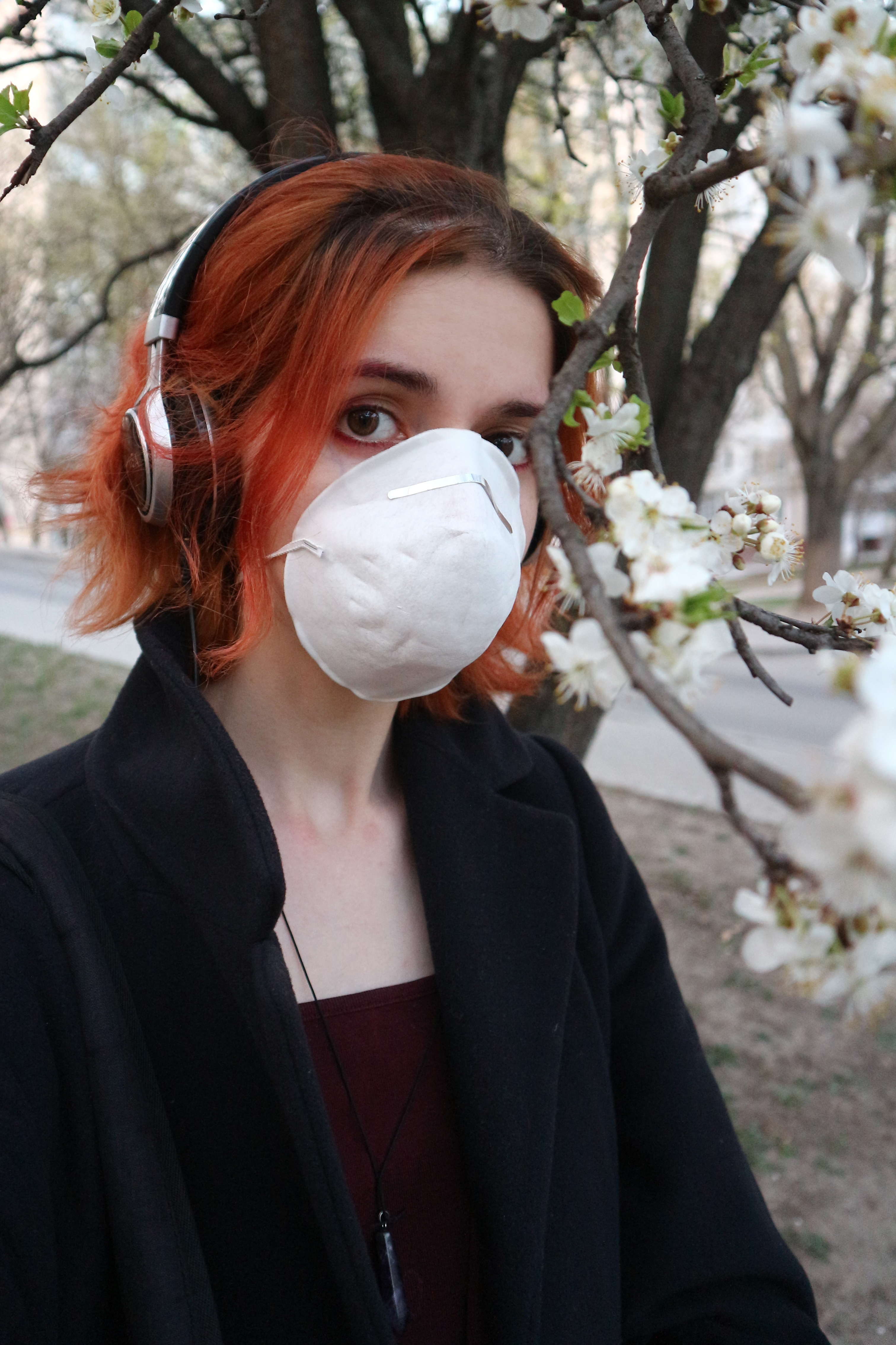 Wearing a dust mask during the COVID-19 pandemic in Khmelnytskyi, April 2020.